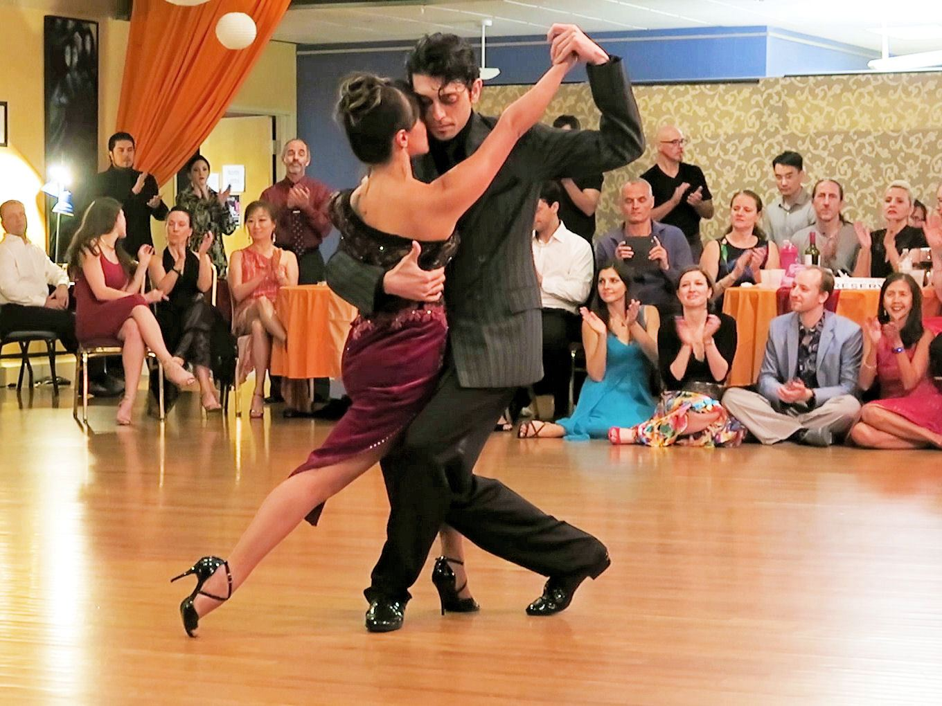 Federico Naveira and Sabrina Masso performing at the Boulder Tango Festival in 2016